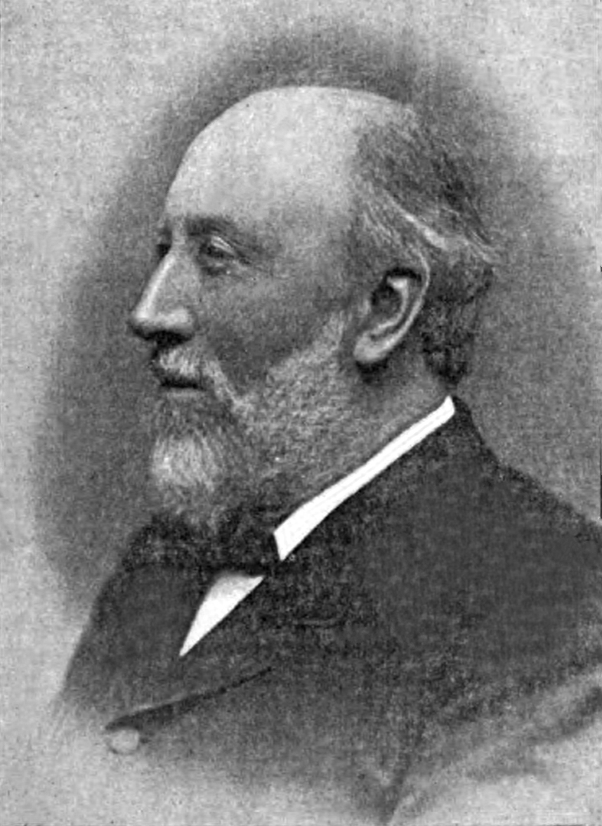 He was an English composer, piano teacher and lecturer at the Royal Academy of Music, the brother of Sir George MacFarren